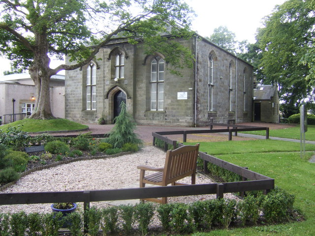 Kirkton parish church, Carluke Nicely landscaped in grounds by Station Road.